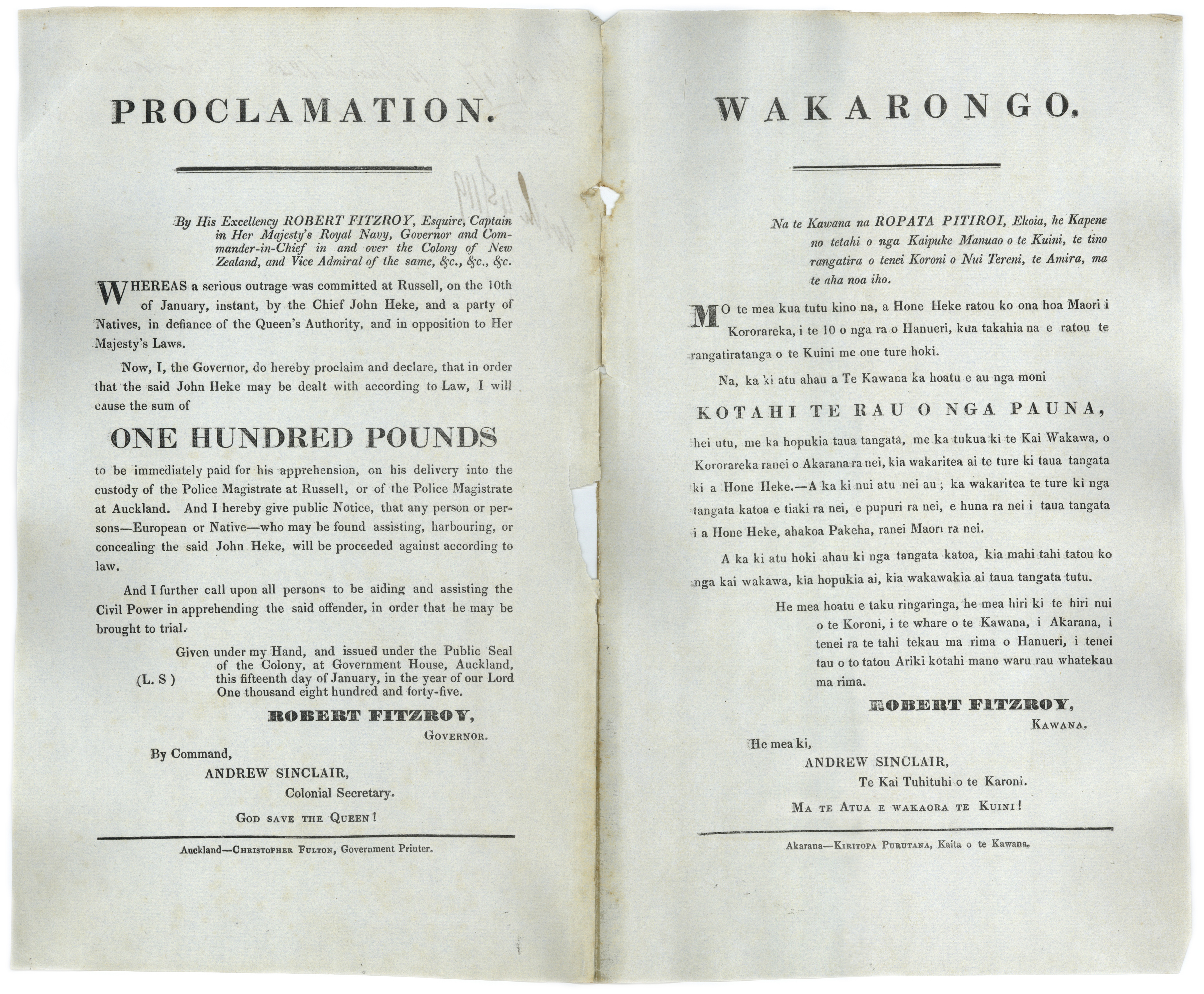 At dawn on 11 March 1845, the town of Kororāreka (Russell) was attacked by a force of 450 Ngāpuhi Māori - including Hōne Heke and Te Ruki Kawiti - during the Northern War. As .nz notes, the Northern War was "a reaction to the increasing control of the colonial government over Māori affairs." For example, "Heke wanted the Māori-language version of Te Tiriti o Waitangi to be honoured. He also wanted to preserve Māori independence and chiefly authority from what he saw as increasing interference by the government." A symbol of this increasing control of Māori affairs was the flagstaff at Kororāreka, originally donated by Heke. The Union Jack had replaced the flag of the United Tribes, which Heke saw as a rejection of the partnership between powers enshrined in Te Tiriti. "The flagstaff was cut down for the first time on 8 July 1844," notes .nz. "It was re-erected but chopped down again on three further occasions: 10 and 18 January and 11 March 1845", during the attack on Kororāreka. Above is the 'wanted' poster for Hōne Heke, issued by Governor General Fitzroy after the felling of the flagstaff in January 1845. It offers one hundred pounds for the arrest of Heke, and threatens those assisting him with prosecution. In return, it is said that Heke, "according to his sense of fair play, offered one hundred pounds for Fitzroy’s capture." Archives Reference: IA1 Box 75/ 1849/158 More information on Hōne Heke and the Northern War can be found at For updates on our On This Day series and news from Archives New Zealand, follow us on Twitter Material from Archives New Zealand